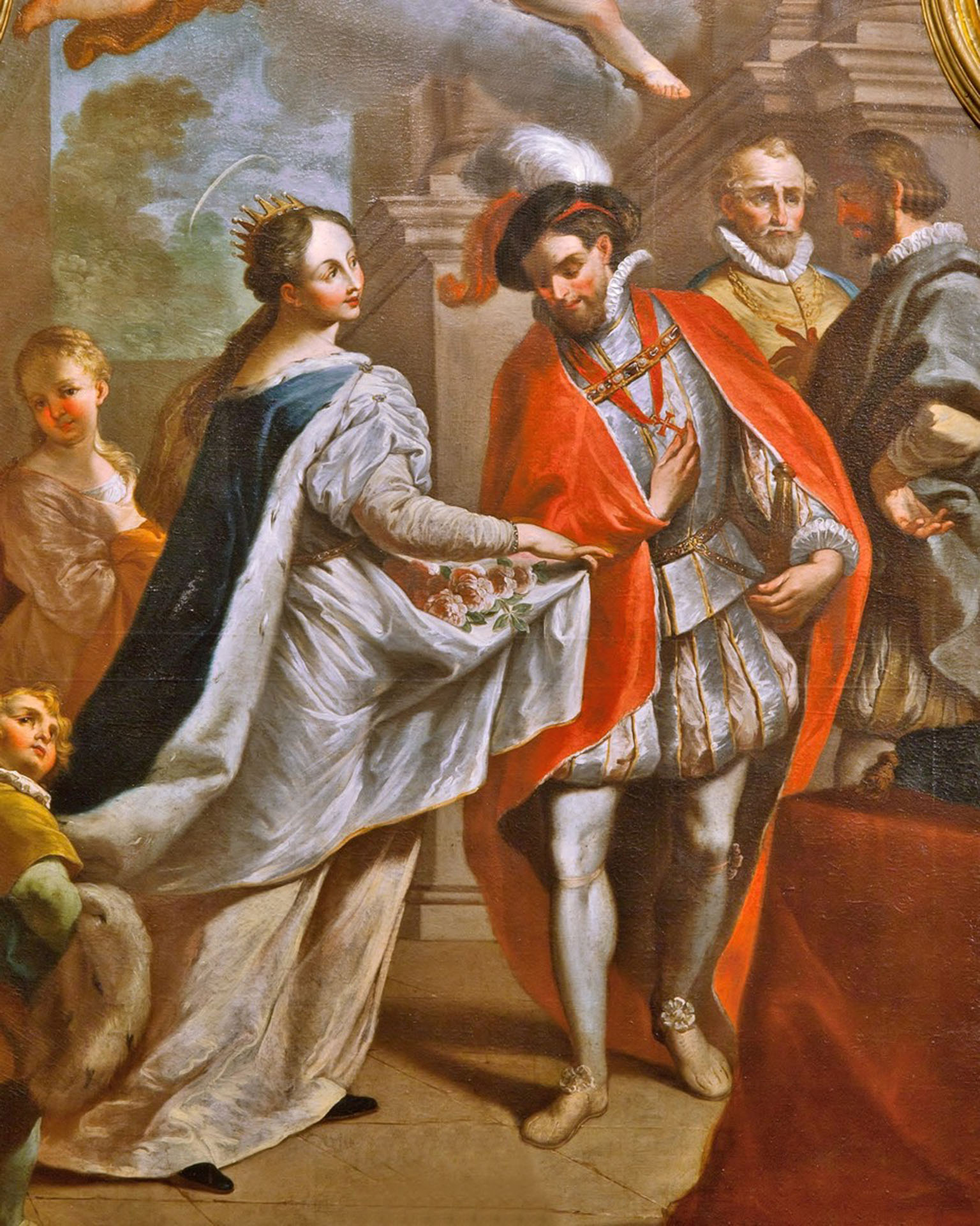 The Miracle of the Roses (c. 1735-40), by André Gonçalves. It depicts St. Elizabeth of Aragon, Queen of Portugal, and King Denis of Portugal. In Igreja do Menino Deus, Lisbon.